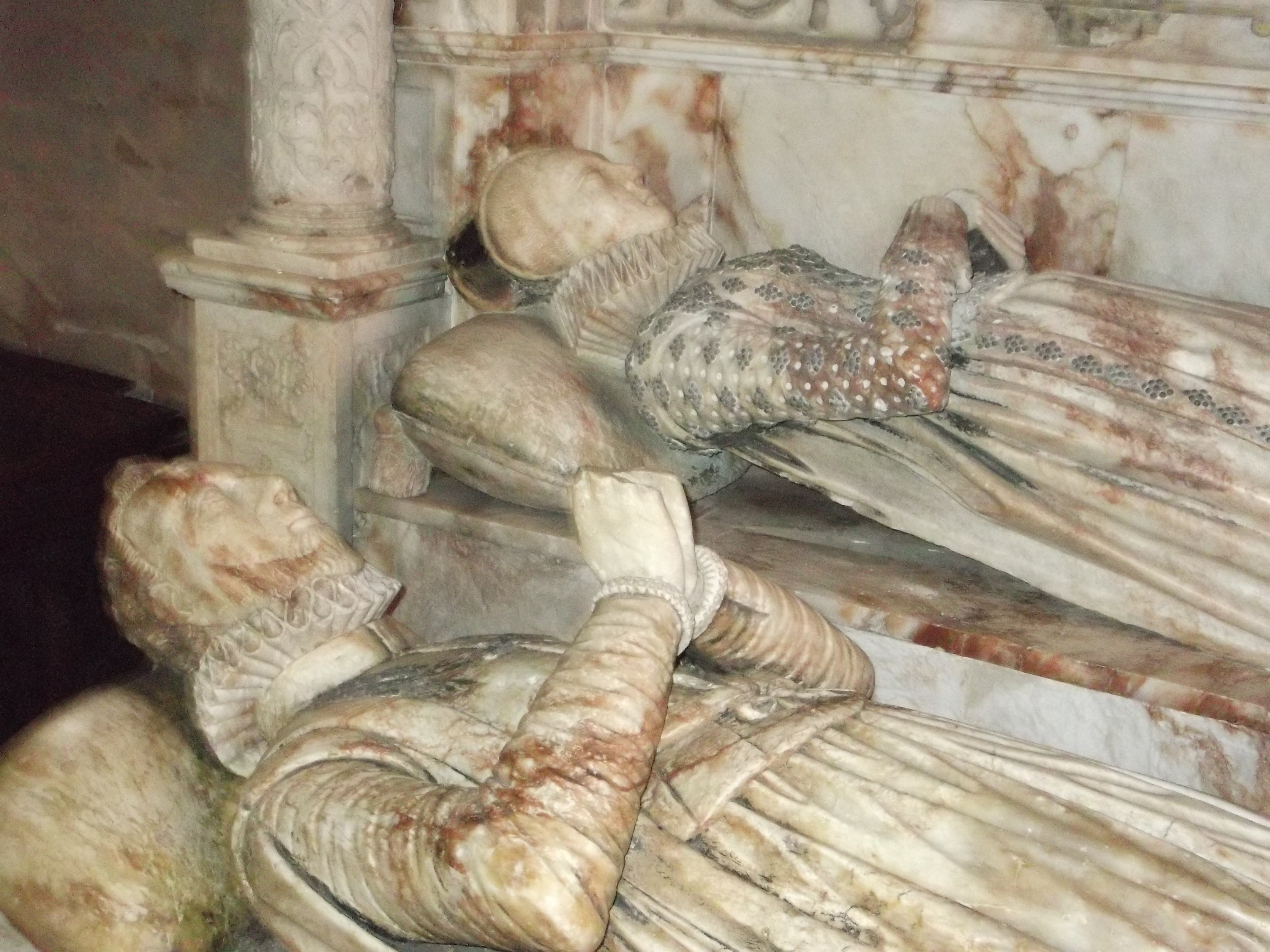 St Peter the Apostle, Worfield, Shropshire. Effigies of George Bromley, a notable judge of the Tudor period and Joan Waverton of Hallon.